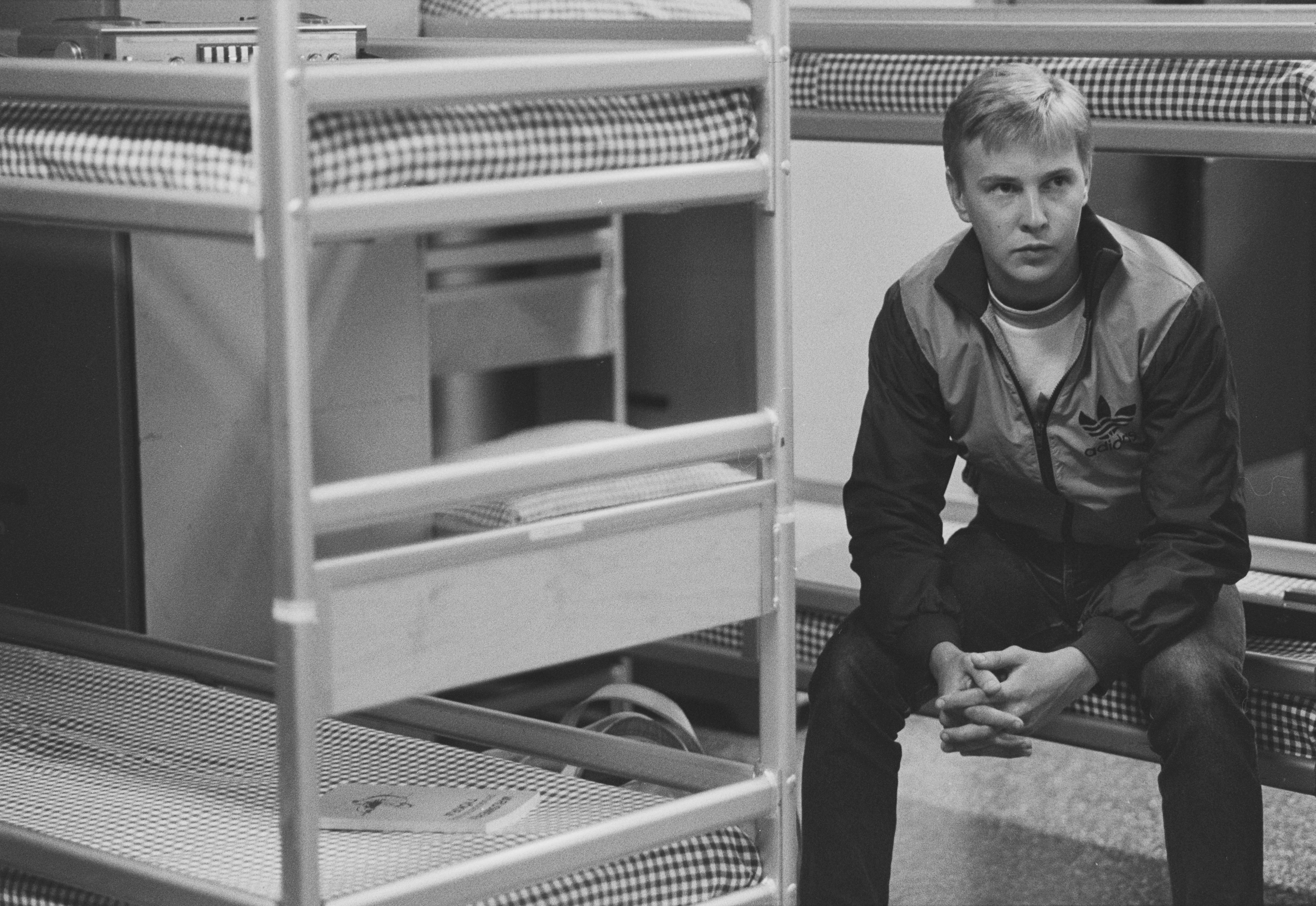 Photograph of the Finnish ski jumper Matti Nykänen (1963–2019) when entering his military service.